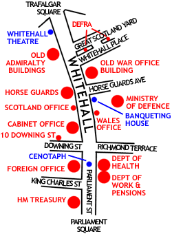 Sketch map of Whitehall, London, showing the position of the major UK Government buildings there